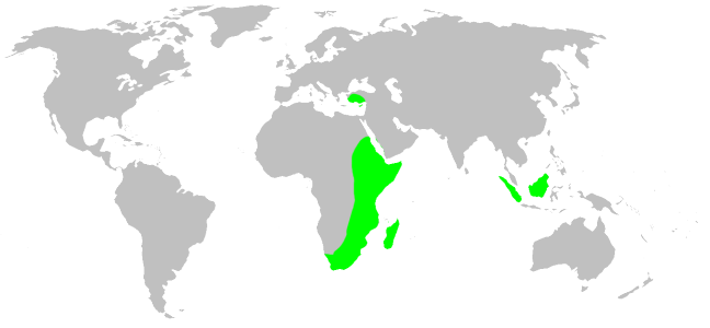 Phyxelididae habitat distribution, drawn after Platnick: World Spider Catalog 7.0. This is not at all a precise rendering of the distribution! If you have better information, please replace this map, or send me the info, and i will redraw it.